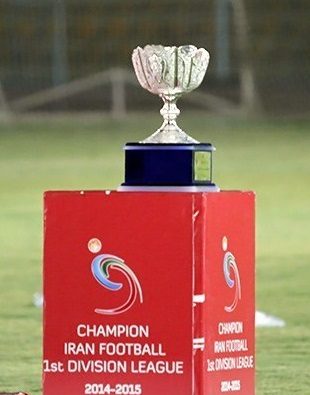 Azadegan League trophy